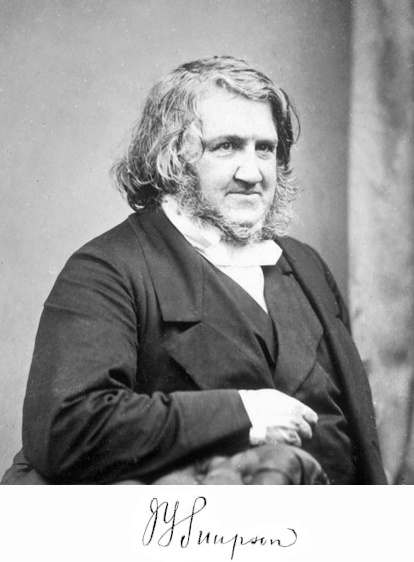 Picture of Sir James Young Simpson, the noted Scottish physician